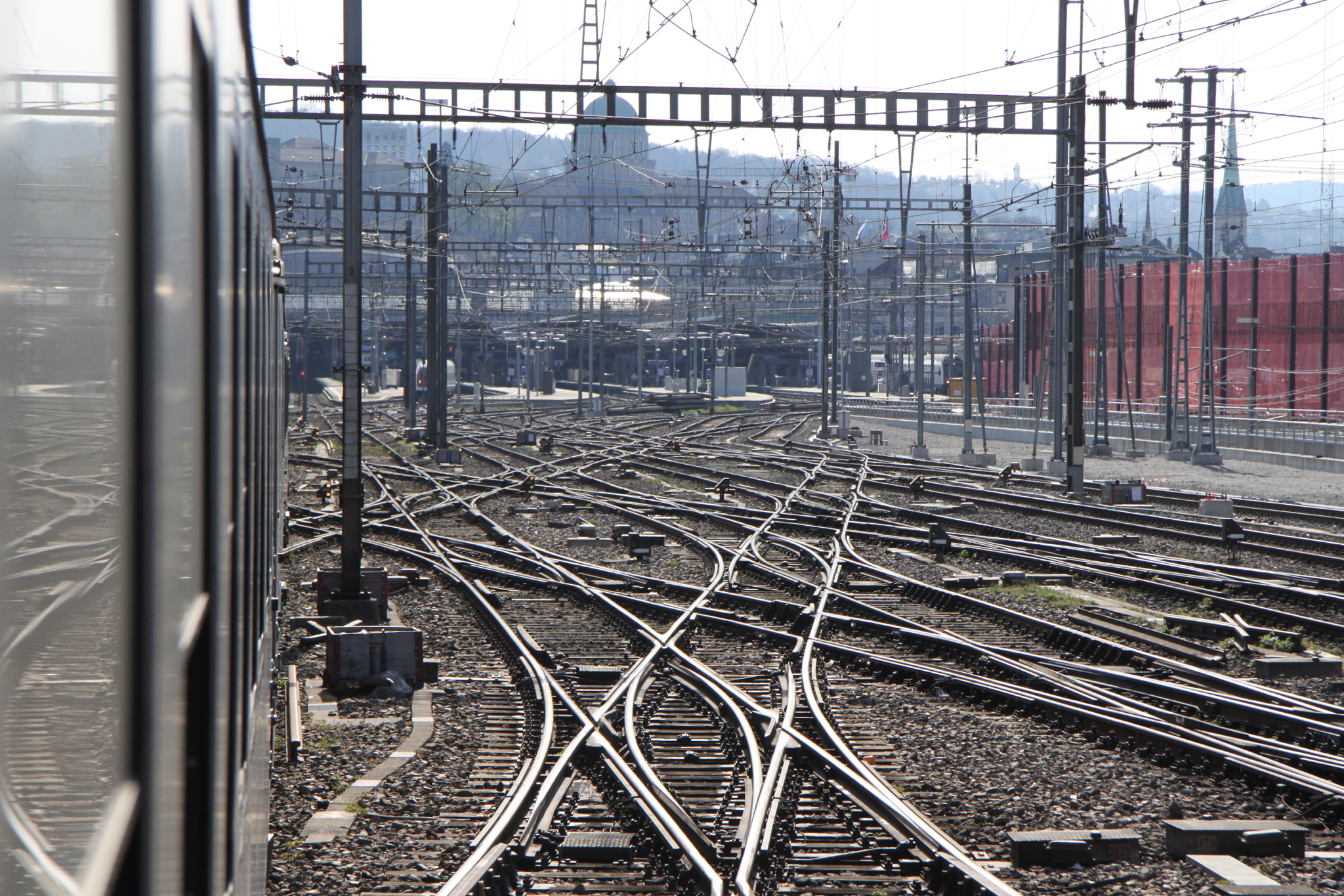 Points at Zürich main station.